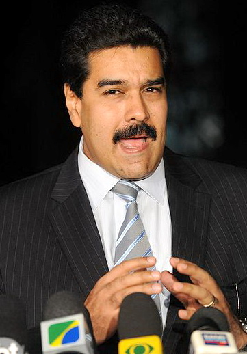 Nicolás Maduro Moros, interim President of The Boliviarian Republic of Venezuela following the death of Hugo Chávez.